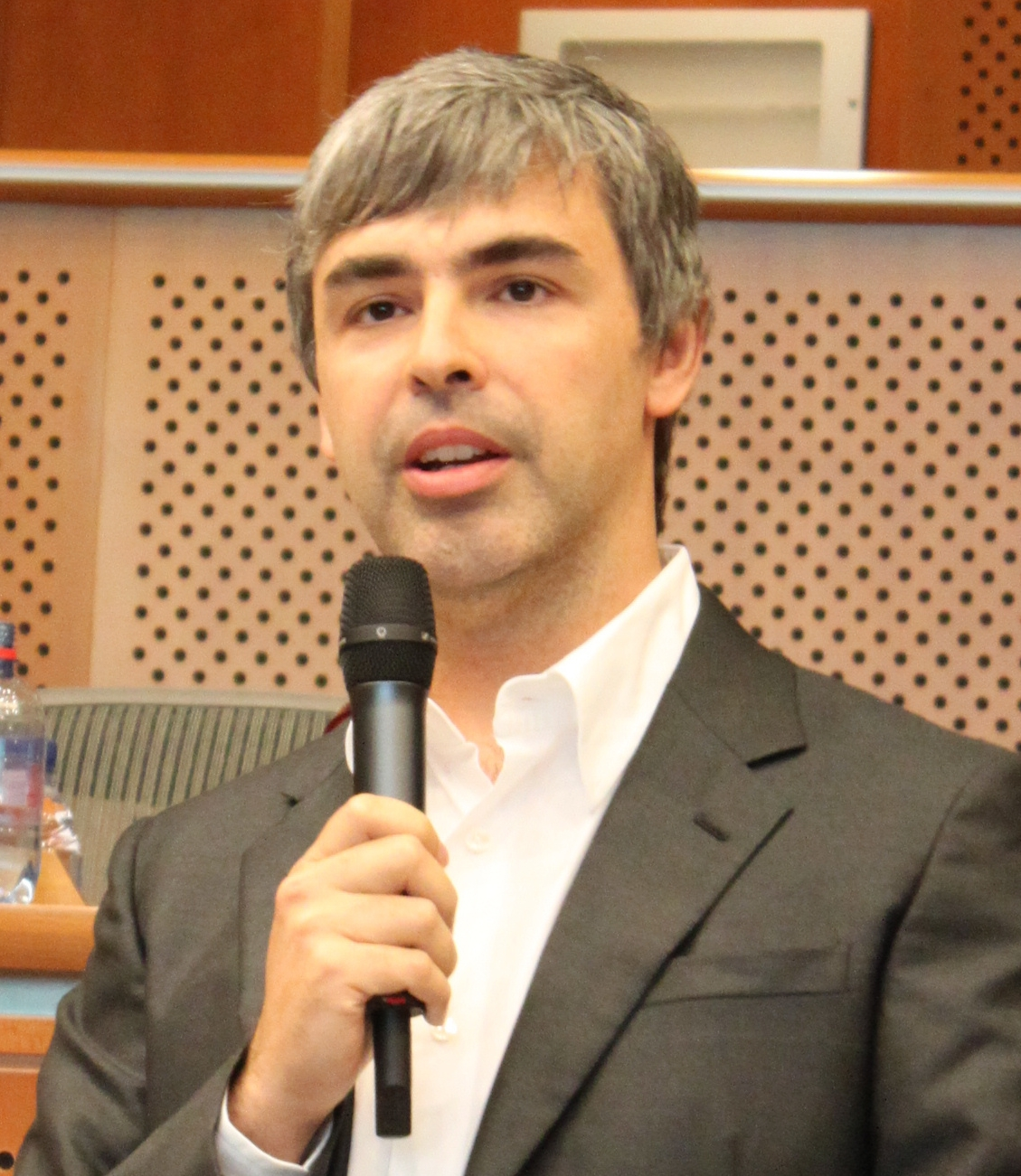 Larry Page, co-founder of Google, in the European Parliament on 17.06.2009